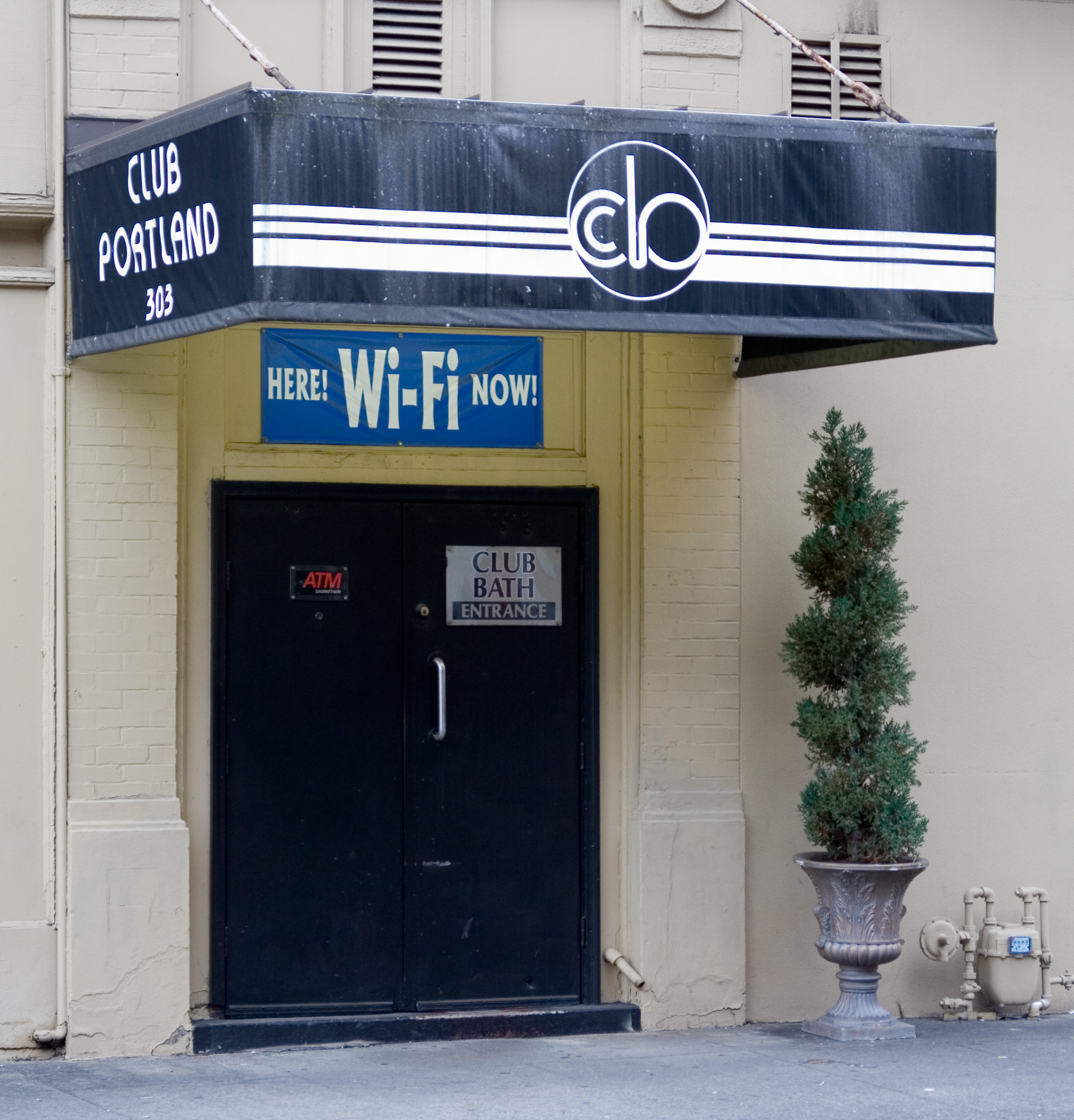 In the historic Hotel Alma building at 303 SW 12th Avenue, Portland, Oregon. The building was later renovated, including repurposing of this space, into the Crystal Hotel.